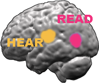 This picture shows the main activation areas in the left hemisphere when someone is hearing a word (occipitotemporal; here orange) or reading a word (temporoparietal; here pink). (according to a study by Petersen et al. 1988, as referred to in M.T.Banich, "Neuropsychology", Houghton Mifflin Company 1997) The basis was the free picture